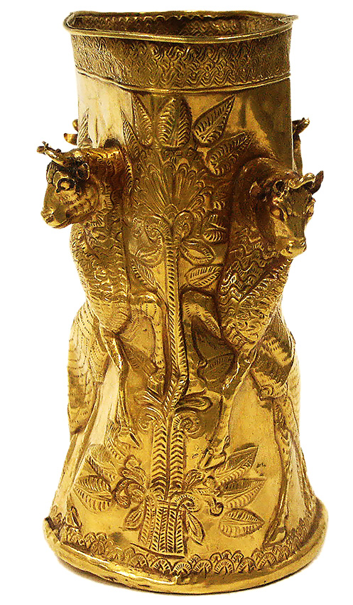 From: Taheri, Sadreddin (2013), Plant of life, in Ancient Iran, Mesopotamia & Egypt, Tehran: Honarhay-e Ziba Journal, Vol. 18, No. 2, p. 10.